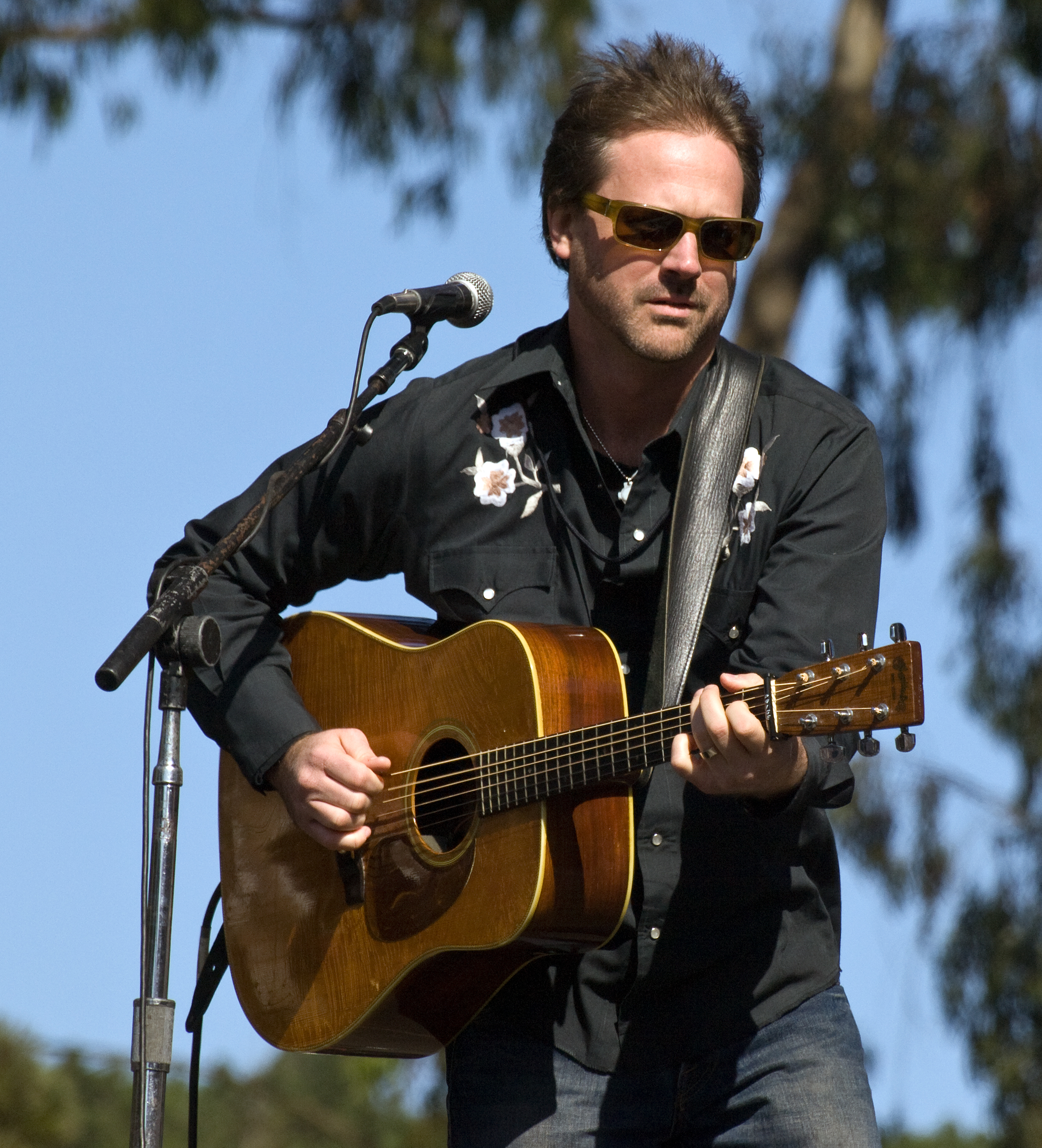 Jon Randall performing with Earl Scruggs Family & Friends at Hardly Strictly Bluegrass, San Francisco, 2009